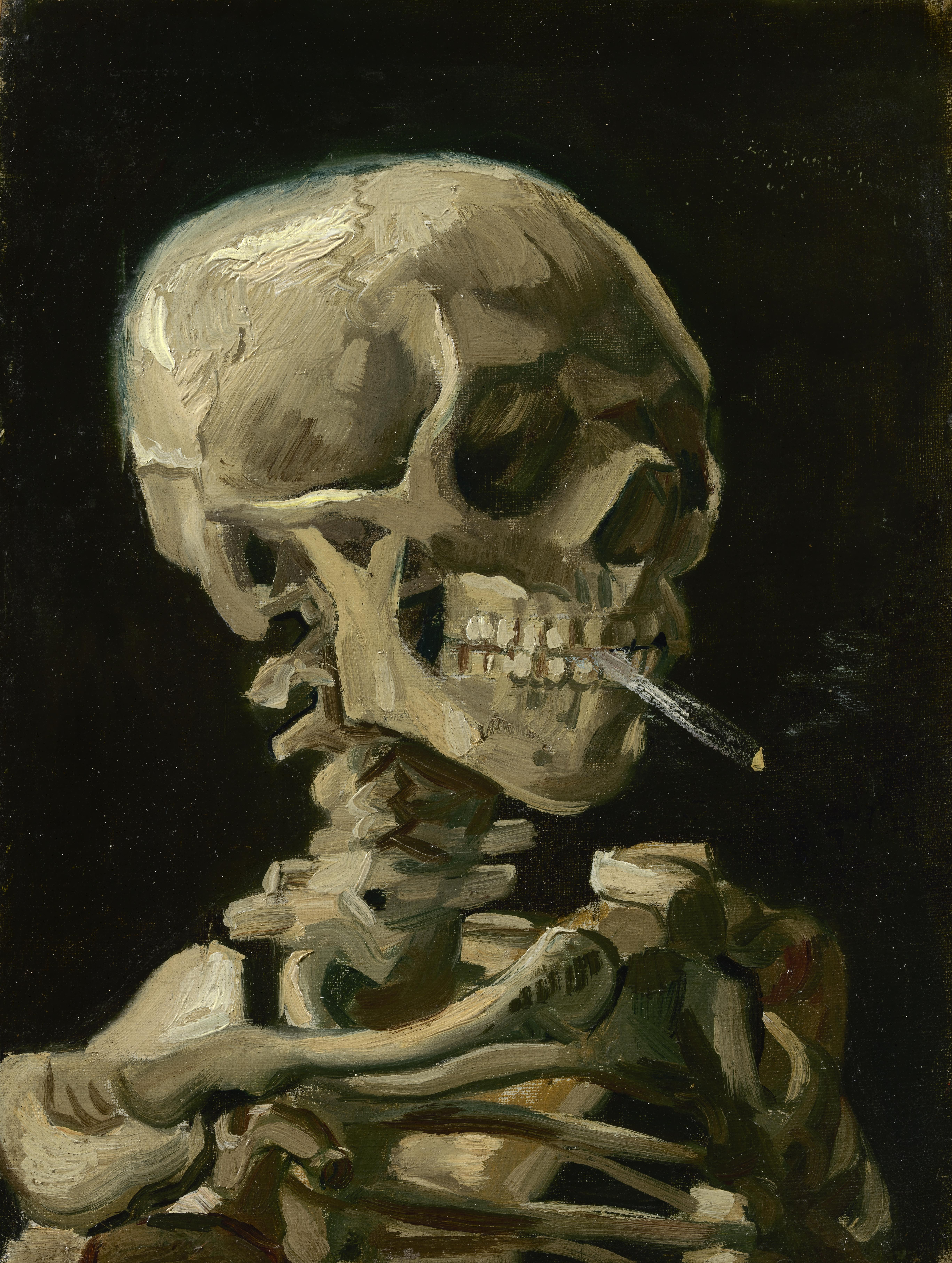 Painting by Vincent van Gogh, 1886